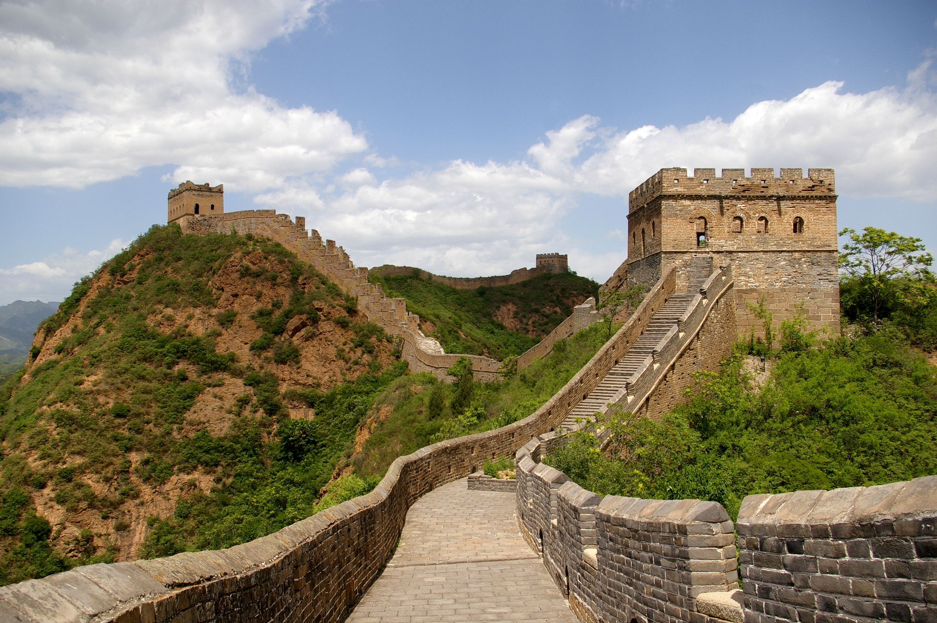 Great Wall of China near Jinshanling